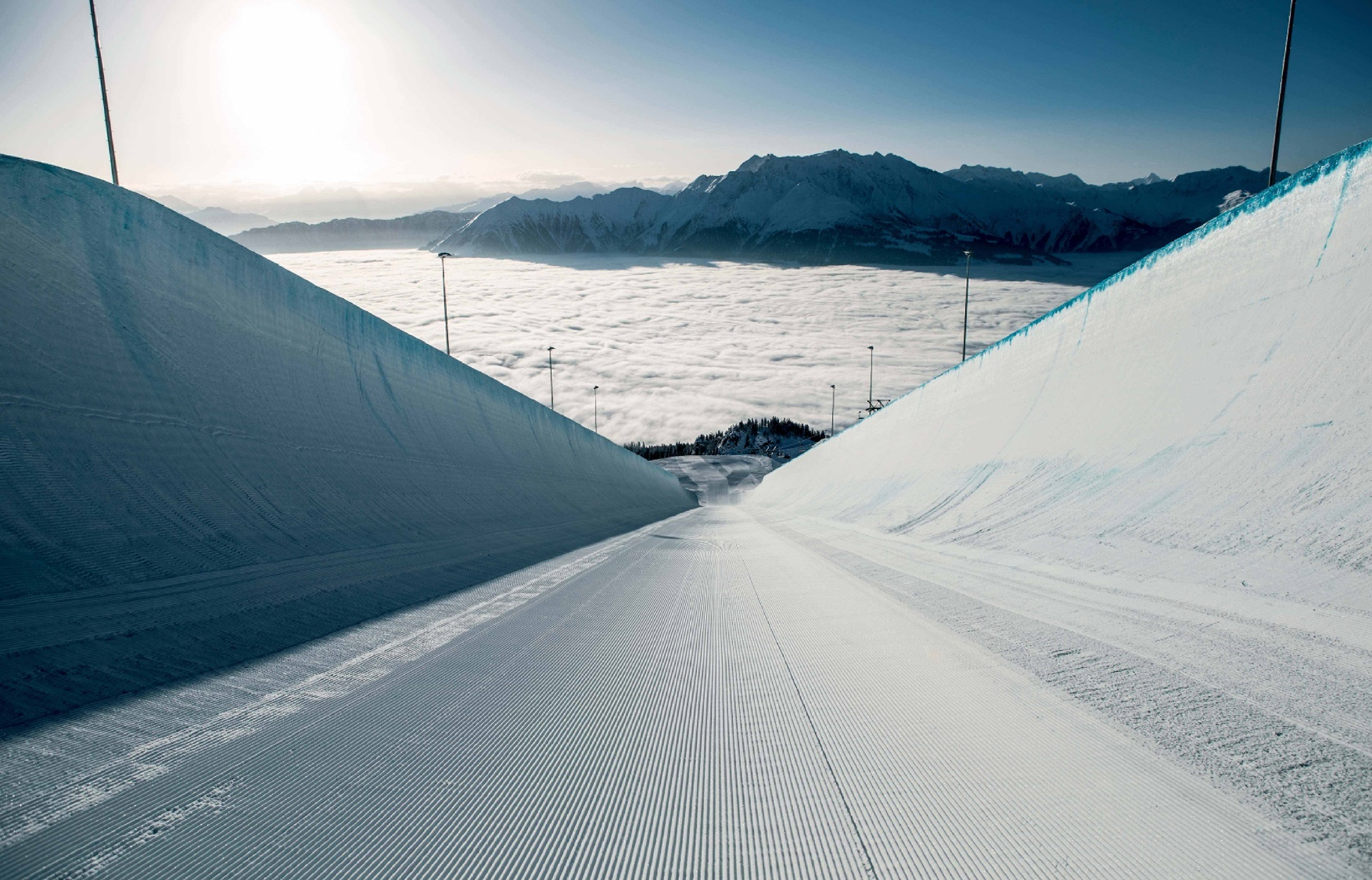 Superpipe in Laax